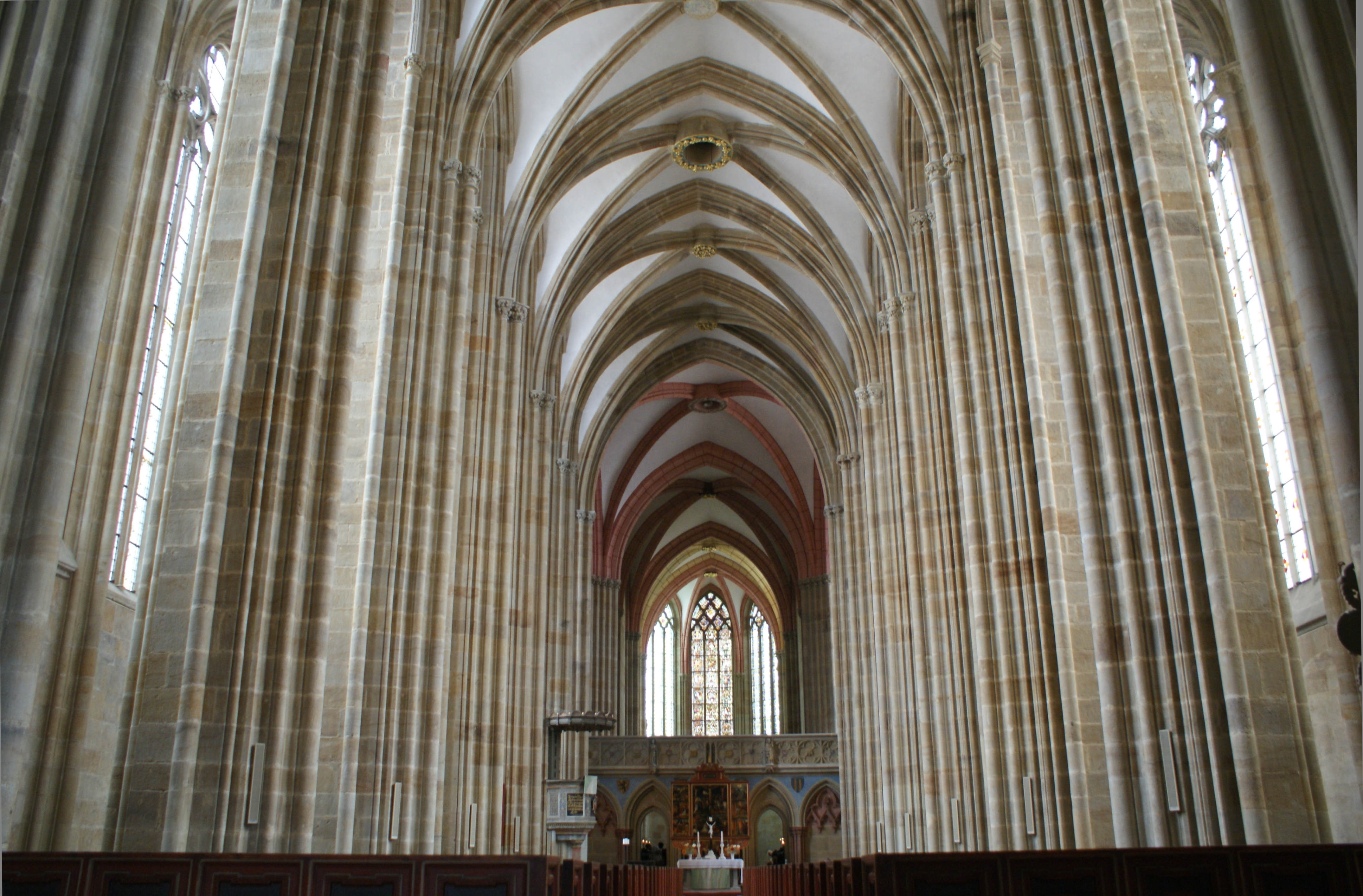 Meissen cathedral, Germany